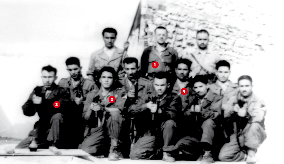 Elements of the Command Center of the Wilaya V: Boussouf Abdelhafid Larbi Ben-M'hidi Houari Boumediene Rachid Mosteghanemi Benyamina Moulay Cherif dit Si Haouès (2ème de droite 1er rang d'accroupis) à gauche de Mosteghanemi